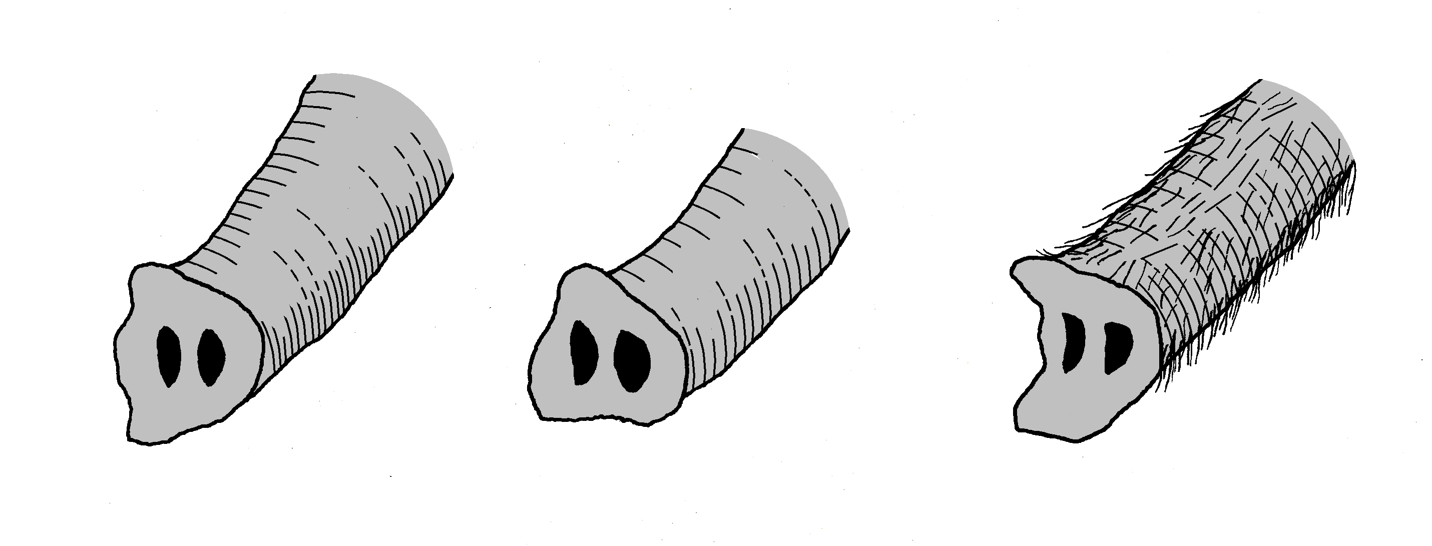 Trunks of elephants. Left: African steppe elephant (Loxodonta afrikana), middel: Asian lephant (Elephas maximus), right: Woolly mammoth (Mammuthus primigenius).